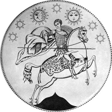 The official description of the Coat of Arms of the Democratic Republic of Georgia with signatures of the Chairman of Parliament of Georgia Nikoloz Chkheidze and Chairman of Government of Georgia Noe Zhordania.